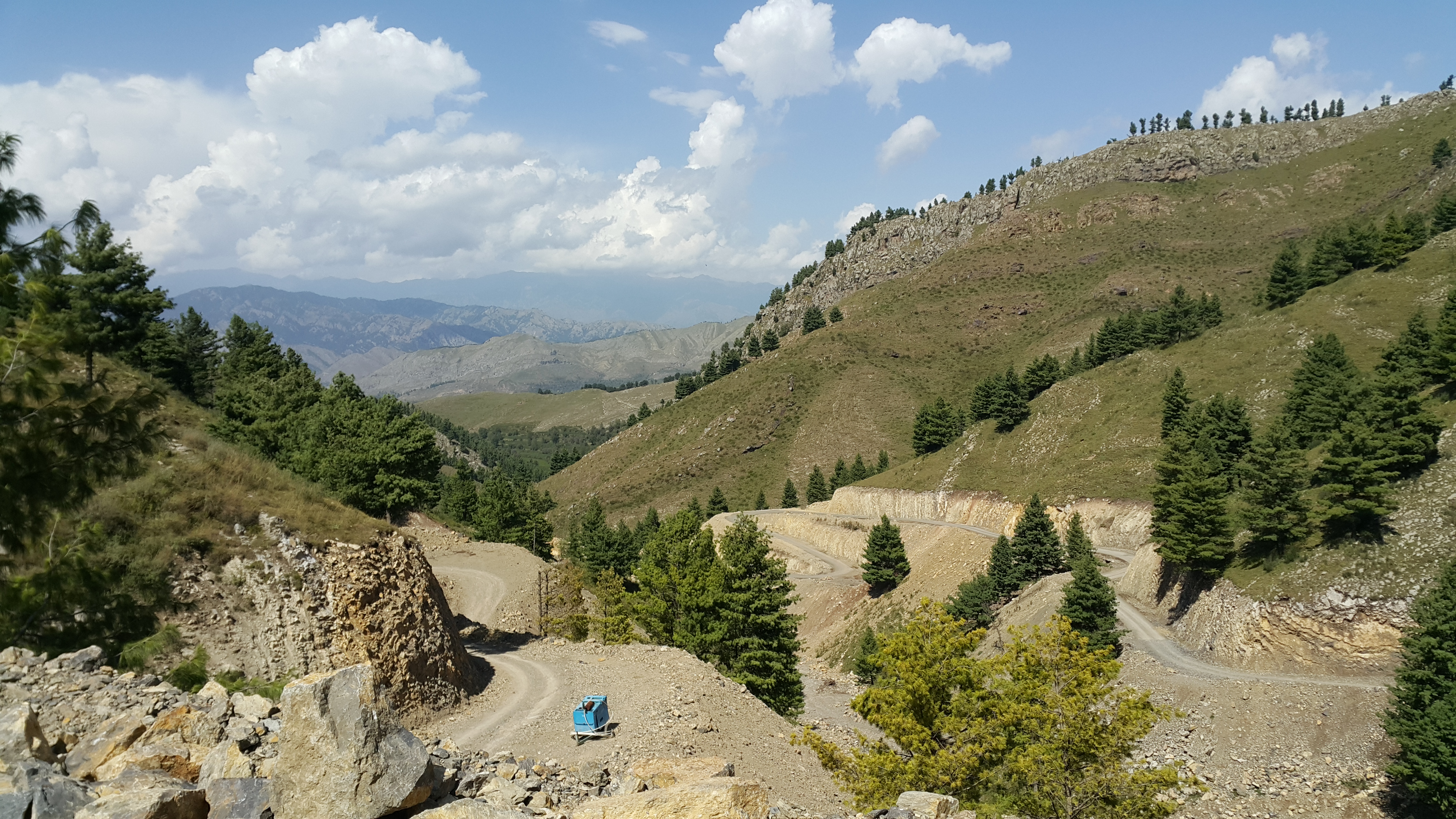 this is the starting of TIrah valley Khyber Agency of tribal Area OF Pakistan. This Is a Beautiful Place of Pakistan and not discovered.